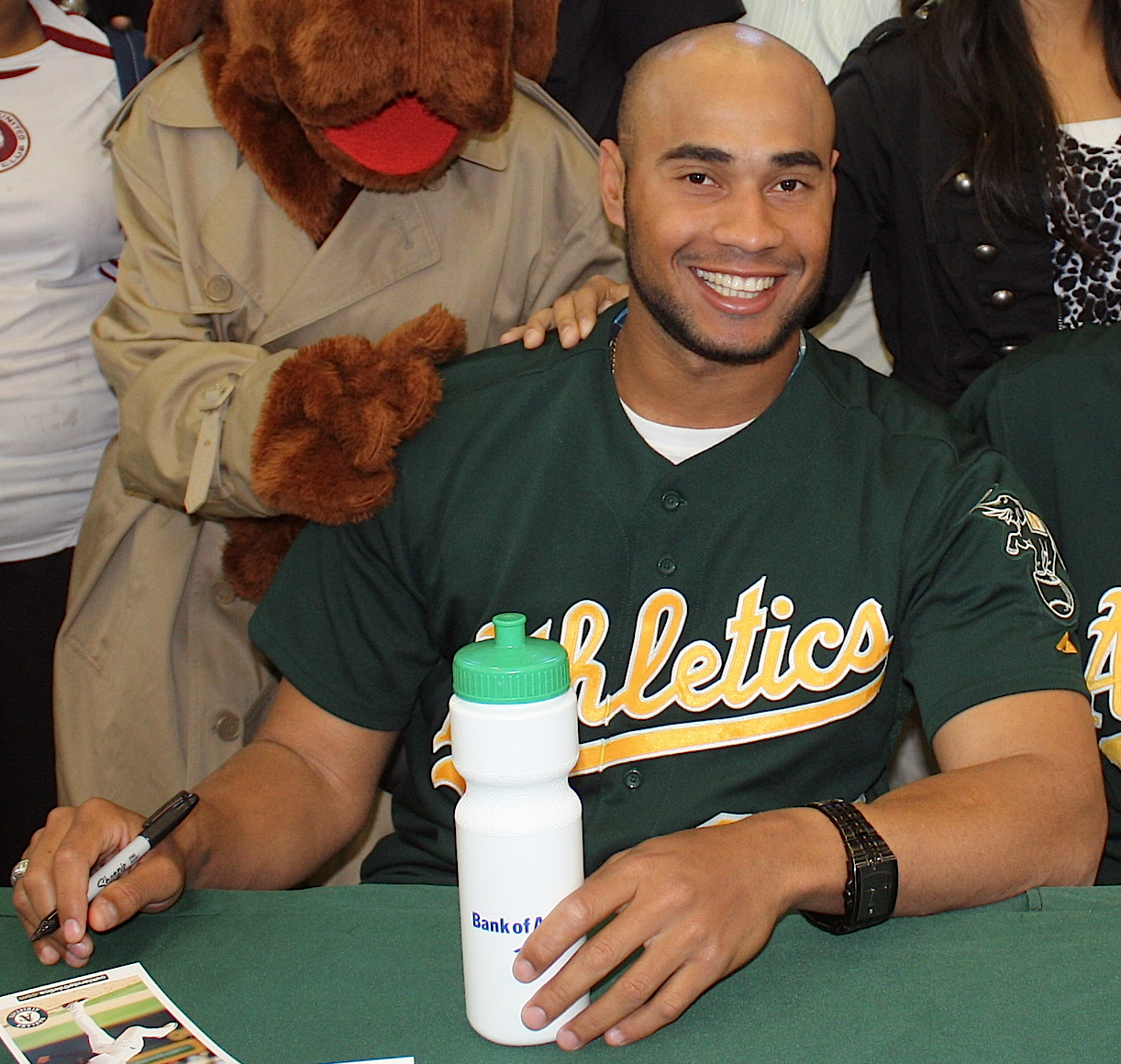 McGruff the Crime Dog, Fautino de los Santos of the Oakland Athletics, Gio Gonzalez of the Oakland Athletics and others pose for a photograph in Richmond, California in 2011.